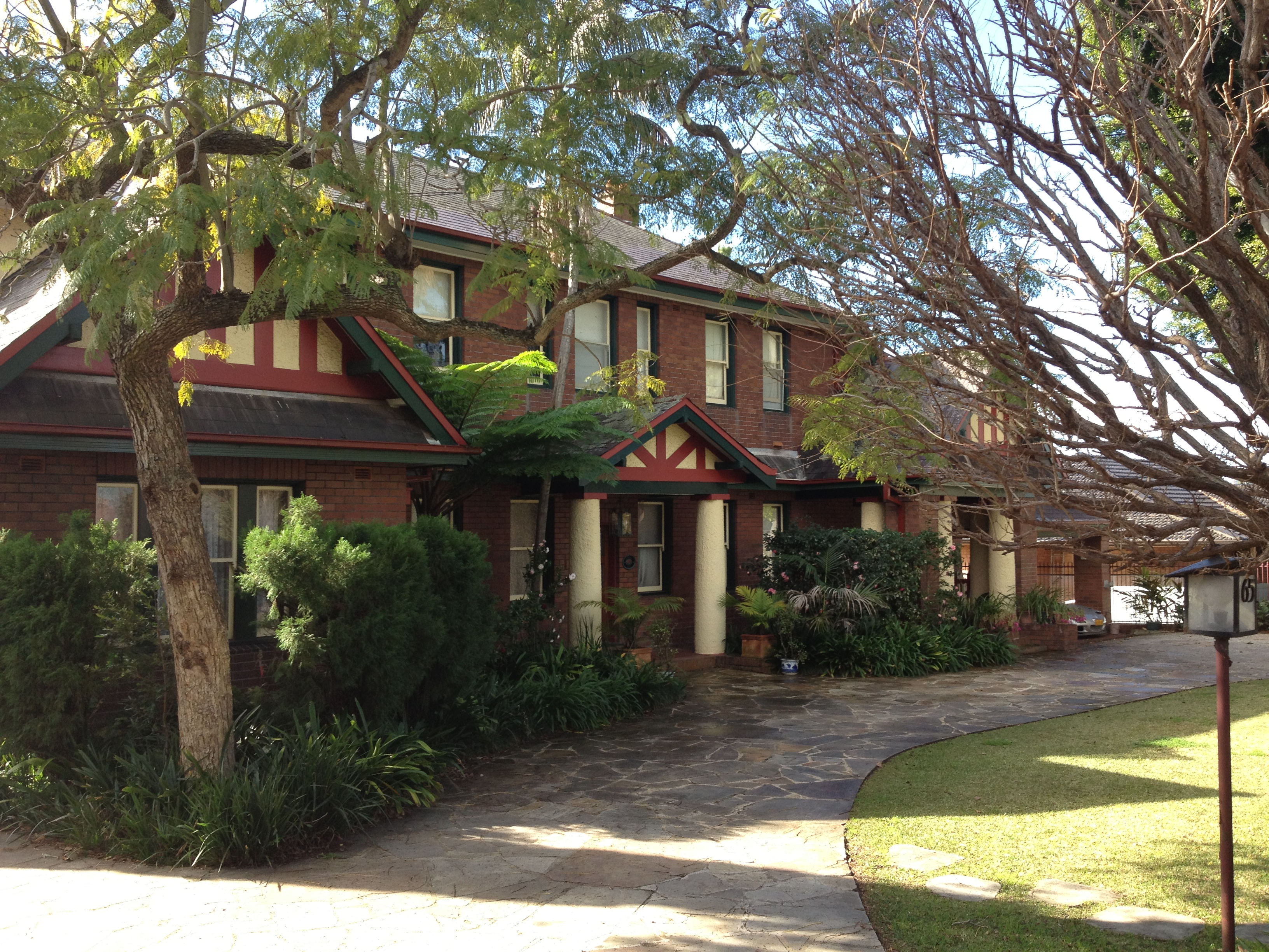 Carlyle Greenwell designed house at 65 Woodside Ave Strathfield, NSW